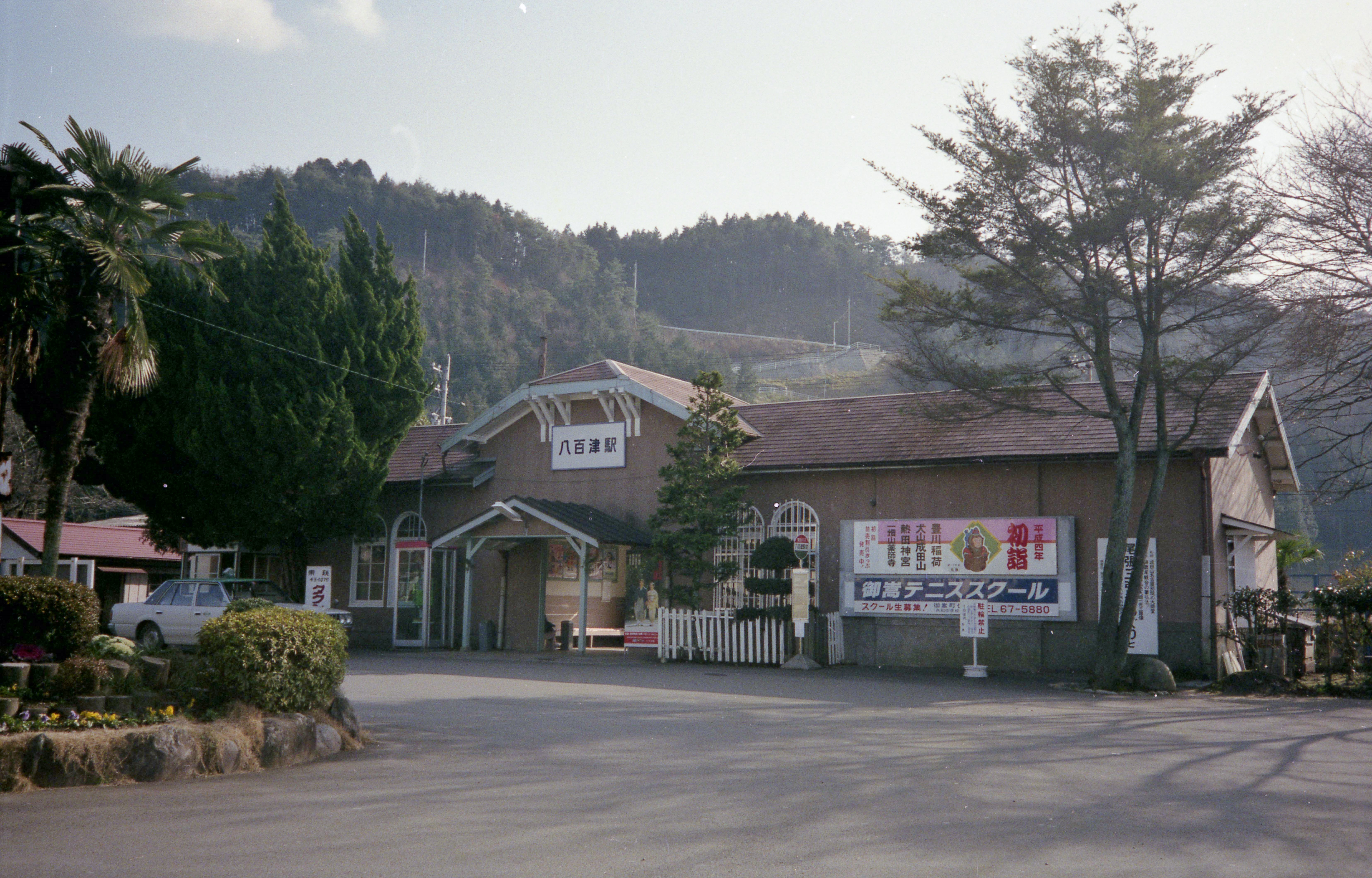 Building of Yaotsu Station, Nagoya Railroad Yaotsu Line (before abolished)